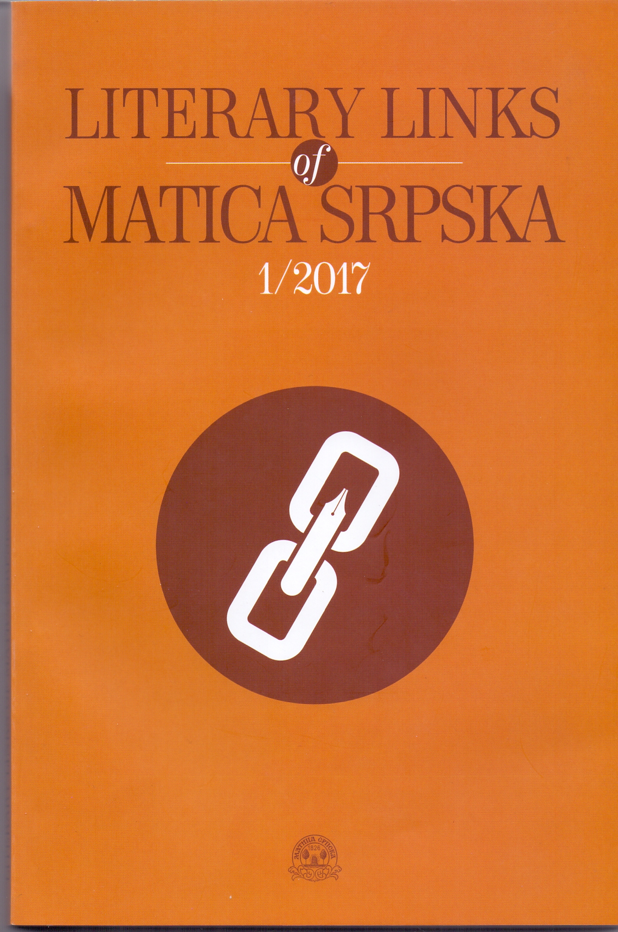 Cover od Serbian scientific journals Literary links of Matica srpska publihed by Matica srpska, Novi Sad, Serbia.